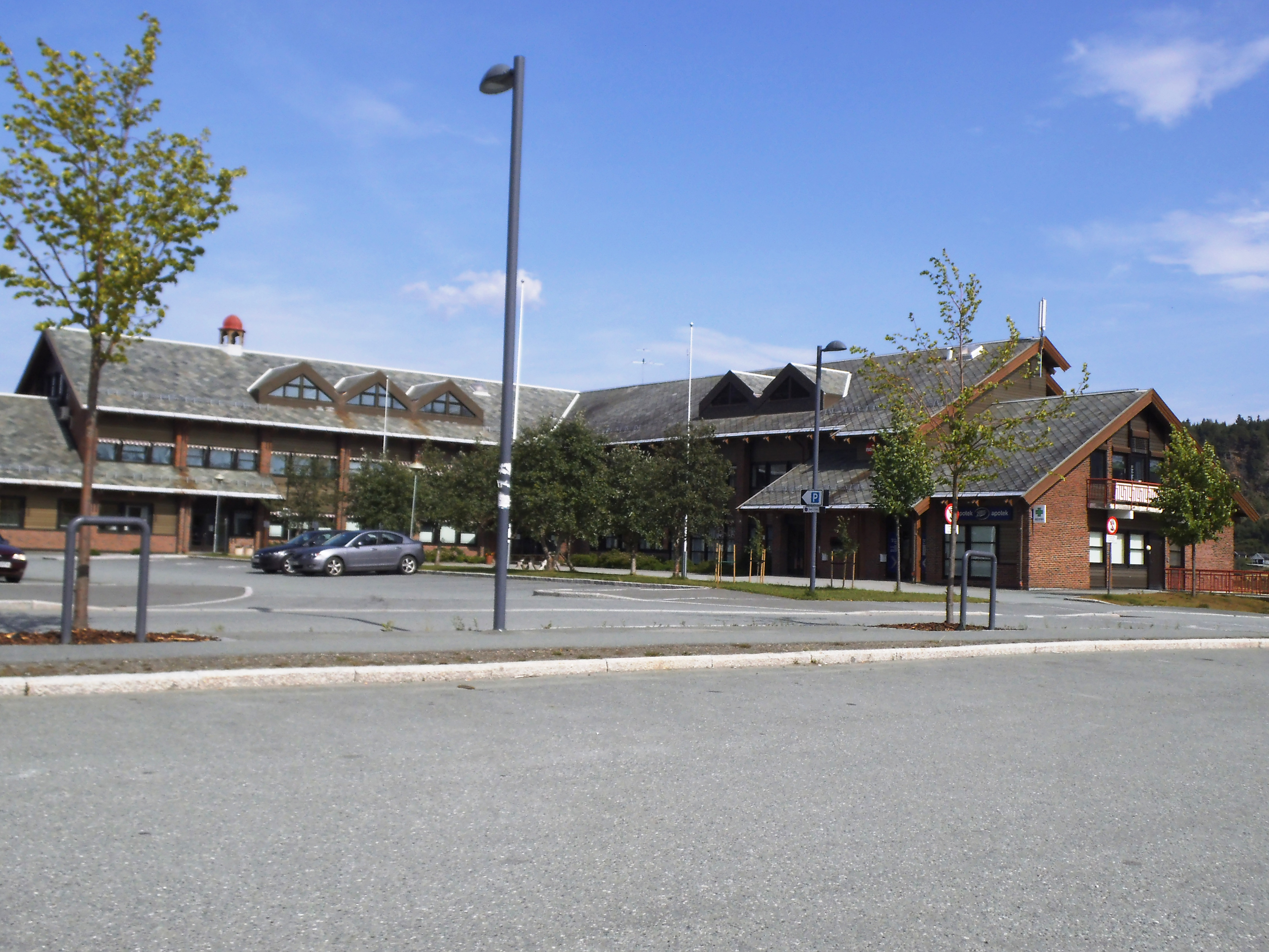 The town hall of Skaun municipality. Located in Børsa.